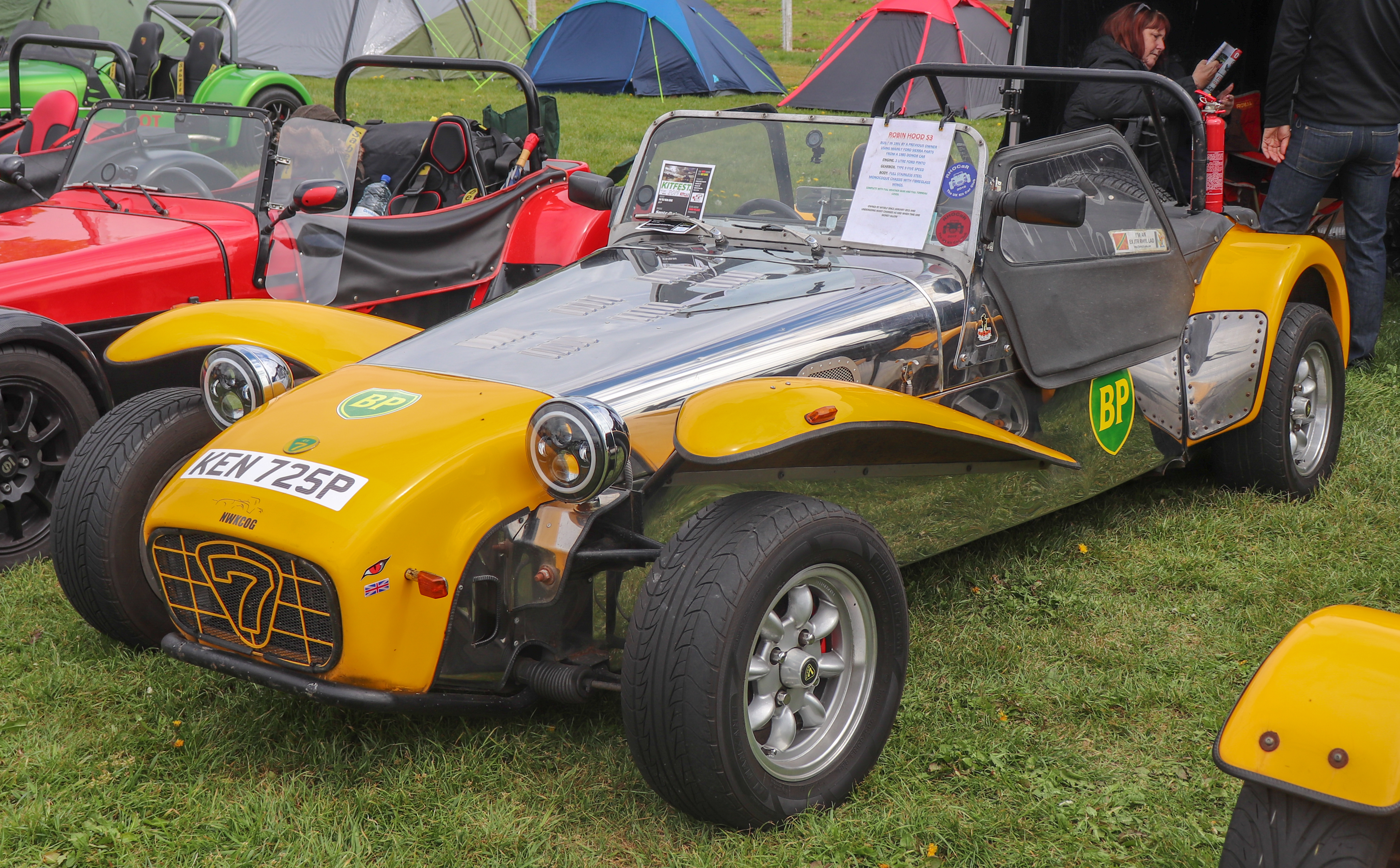 1991 Robin Hood S3 2.0 Front Taken at the Stoneleigh National Kit Car Motor Show 2019